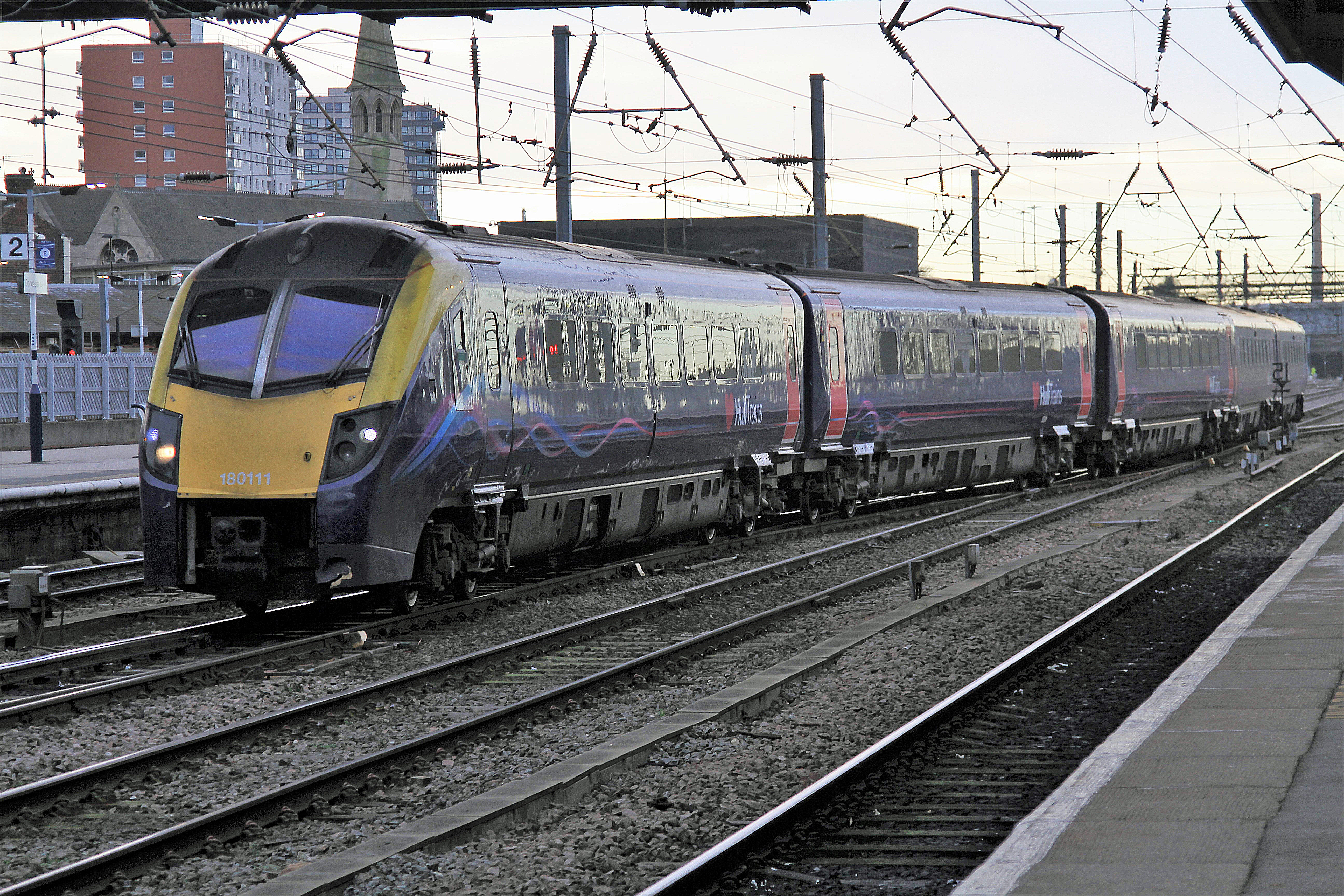 180-111 Adelante Hull trains Doncaster 28-11-2016